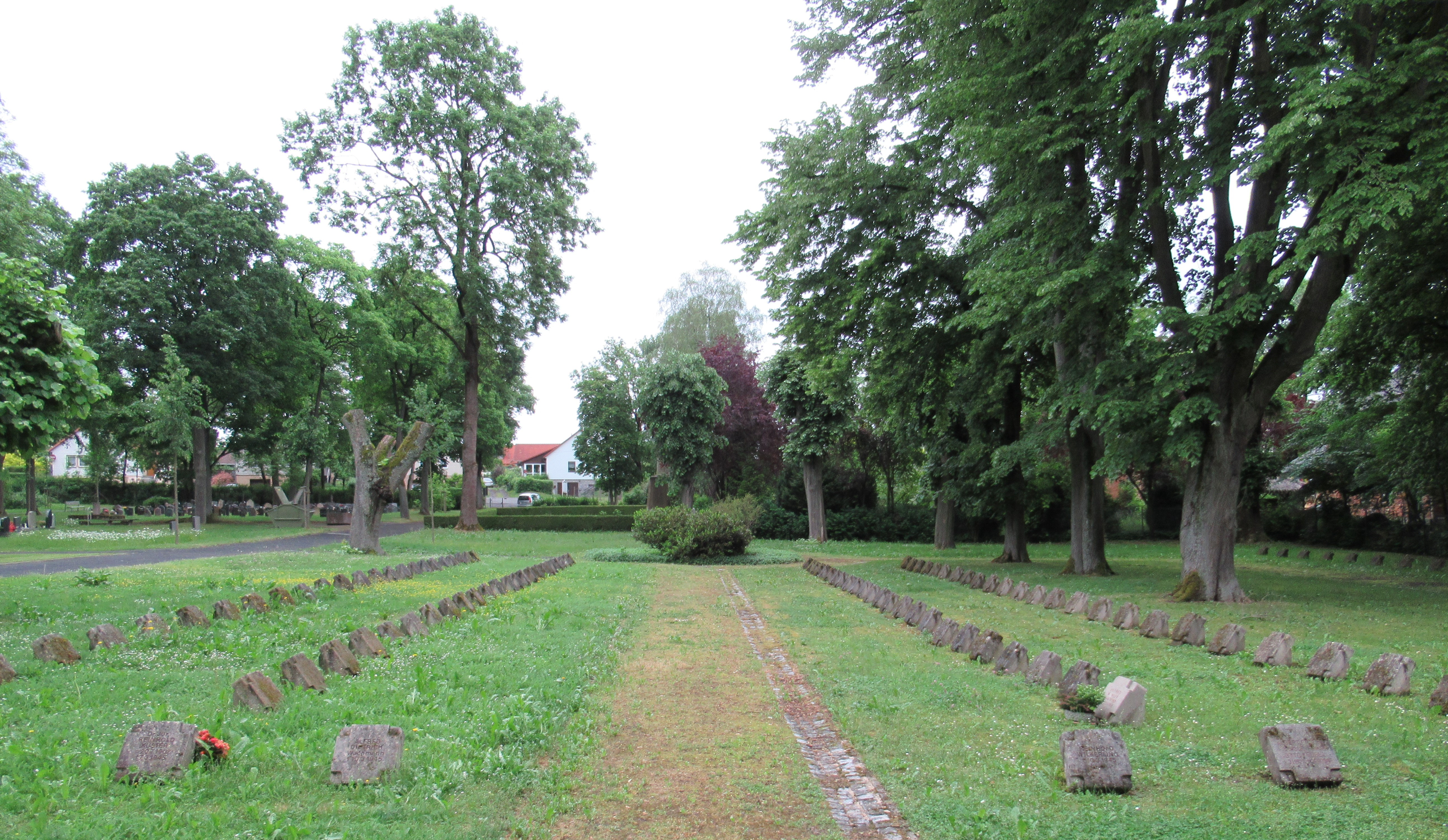 Bombing Victims 1945 in Hildburghausen in Thuringia